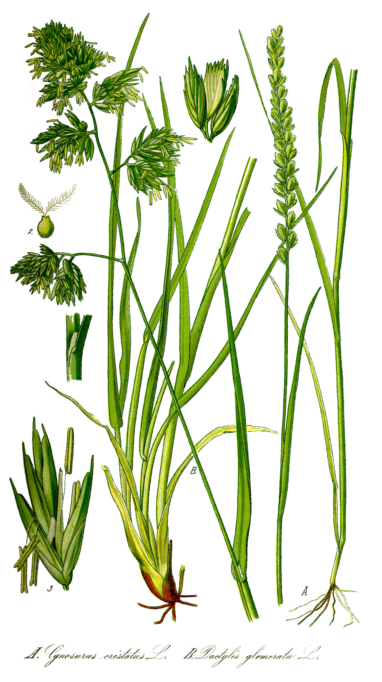 Name Dactylis glomerata Family Poaceae